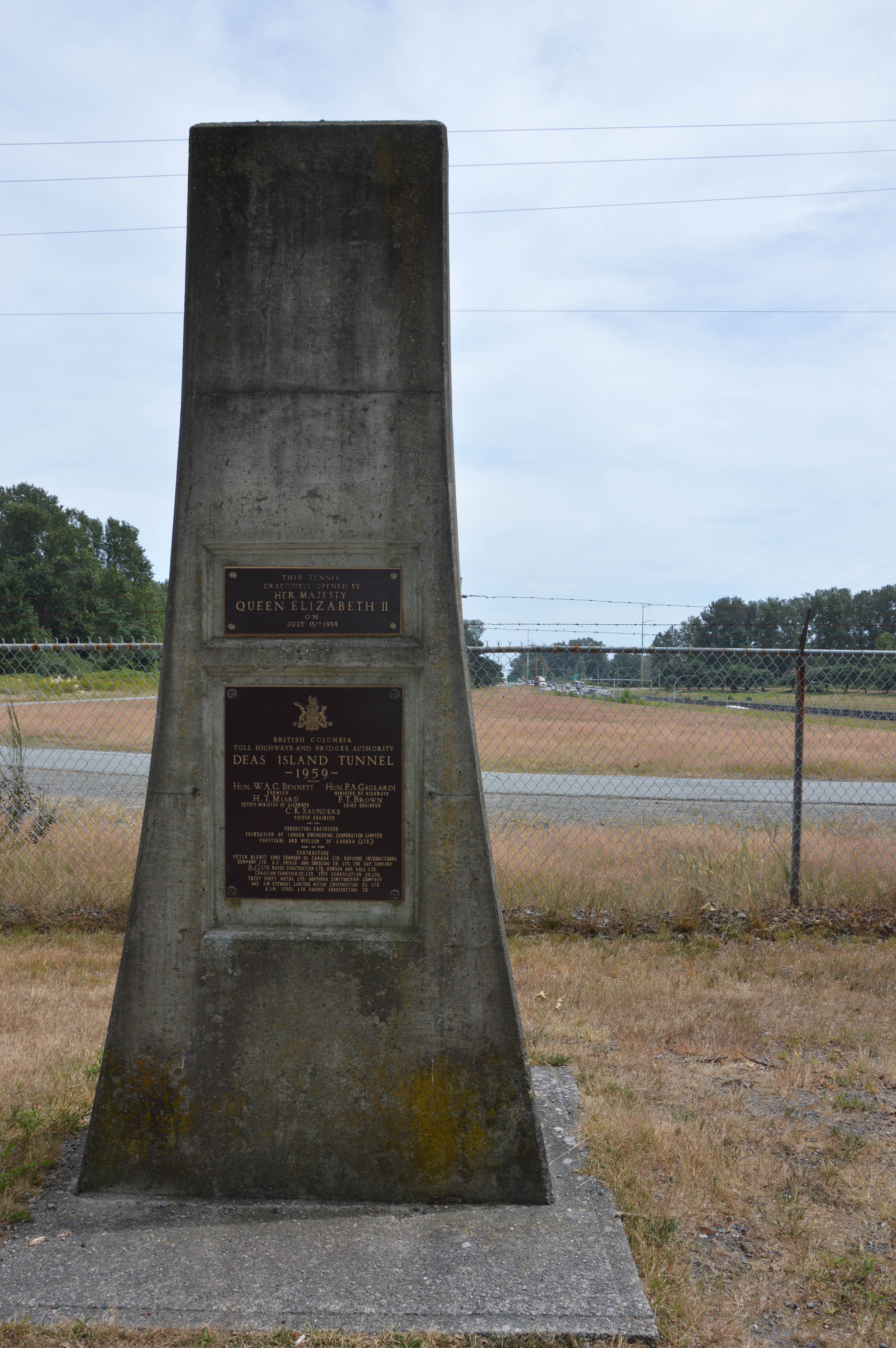 Monument for the 15 July 1959 opening of the Deas Island Tunnel, in Delta, British Columbia, Canada.